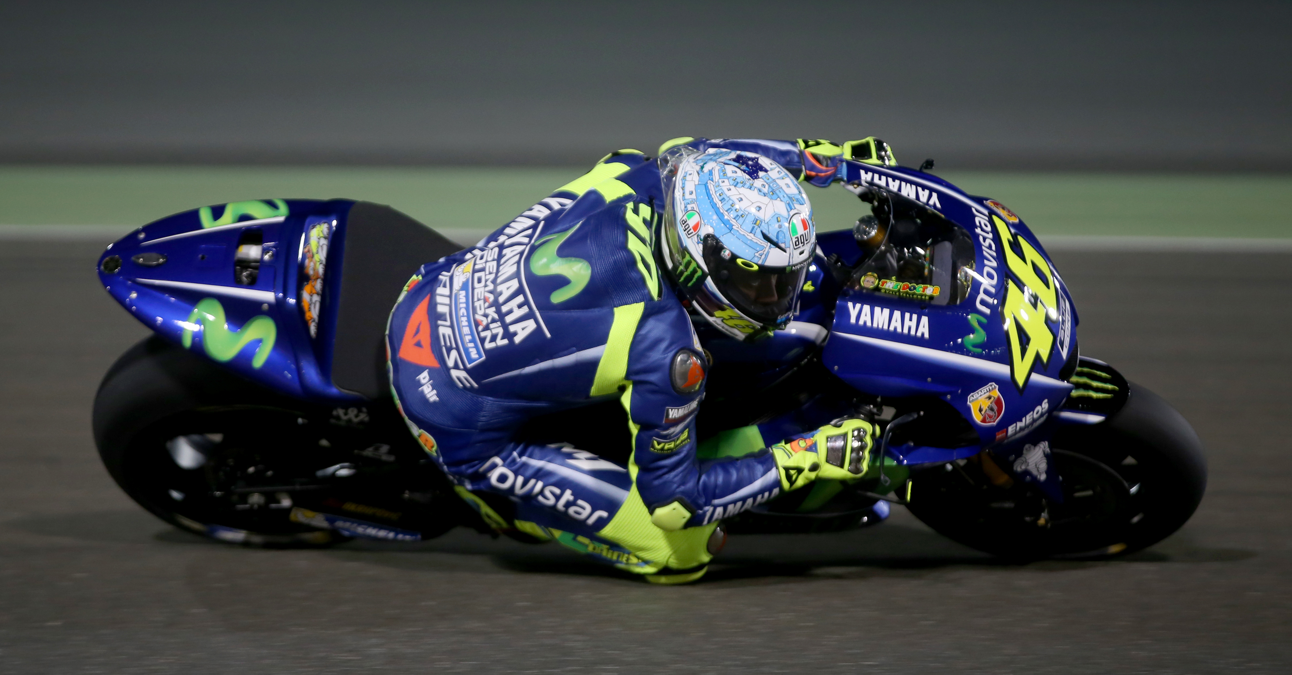 Pic by Mohan